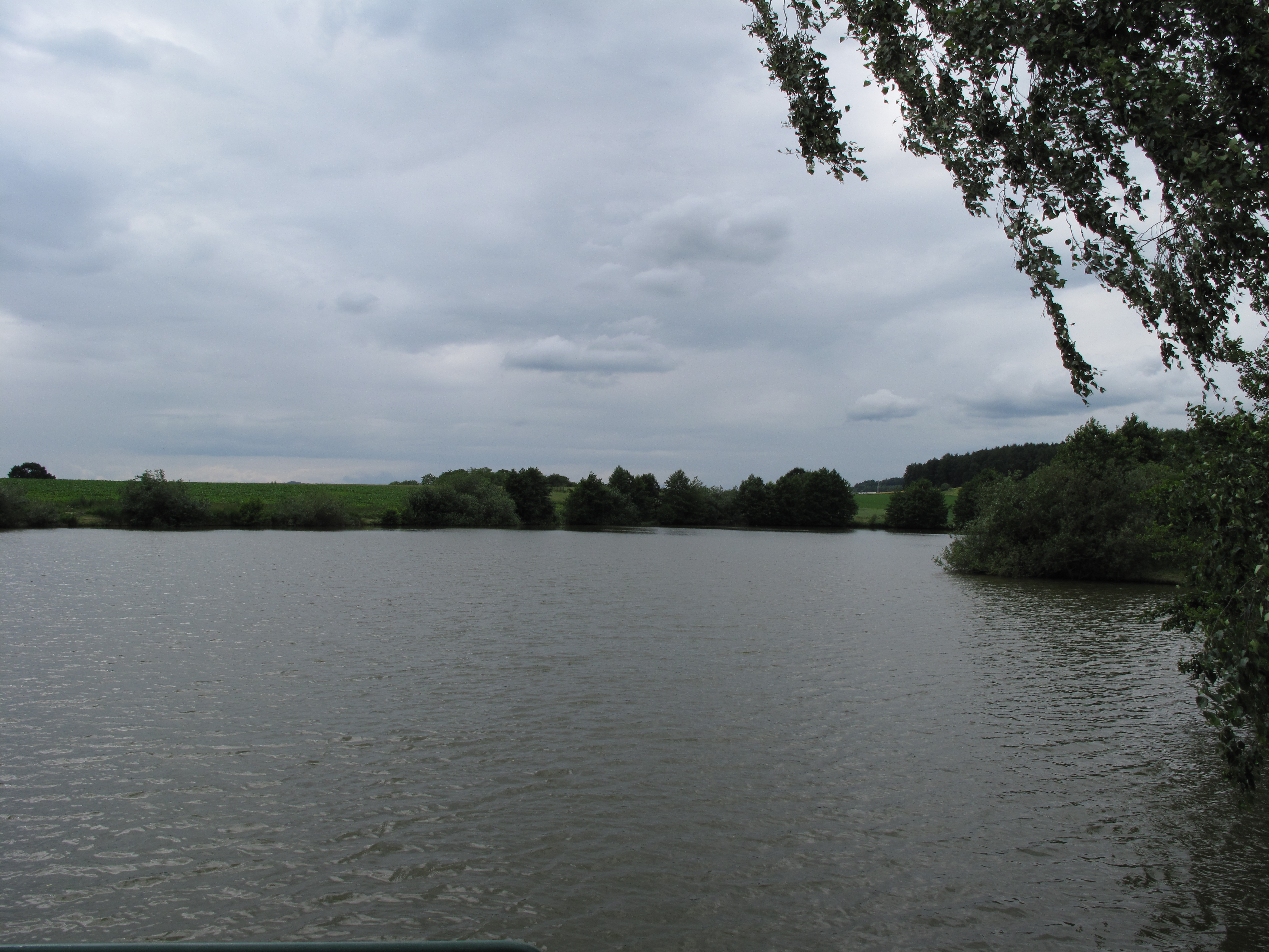 View at Bonda Pond, Radim municipality, Jičín District, Czech Republic.